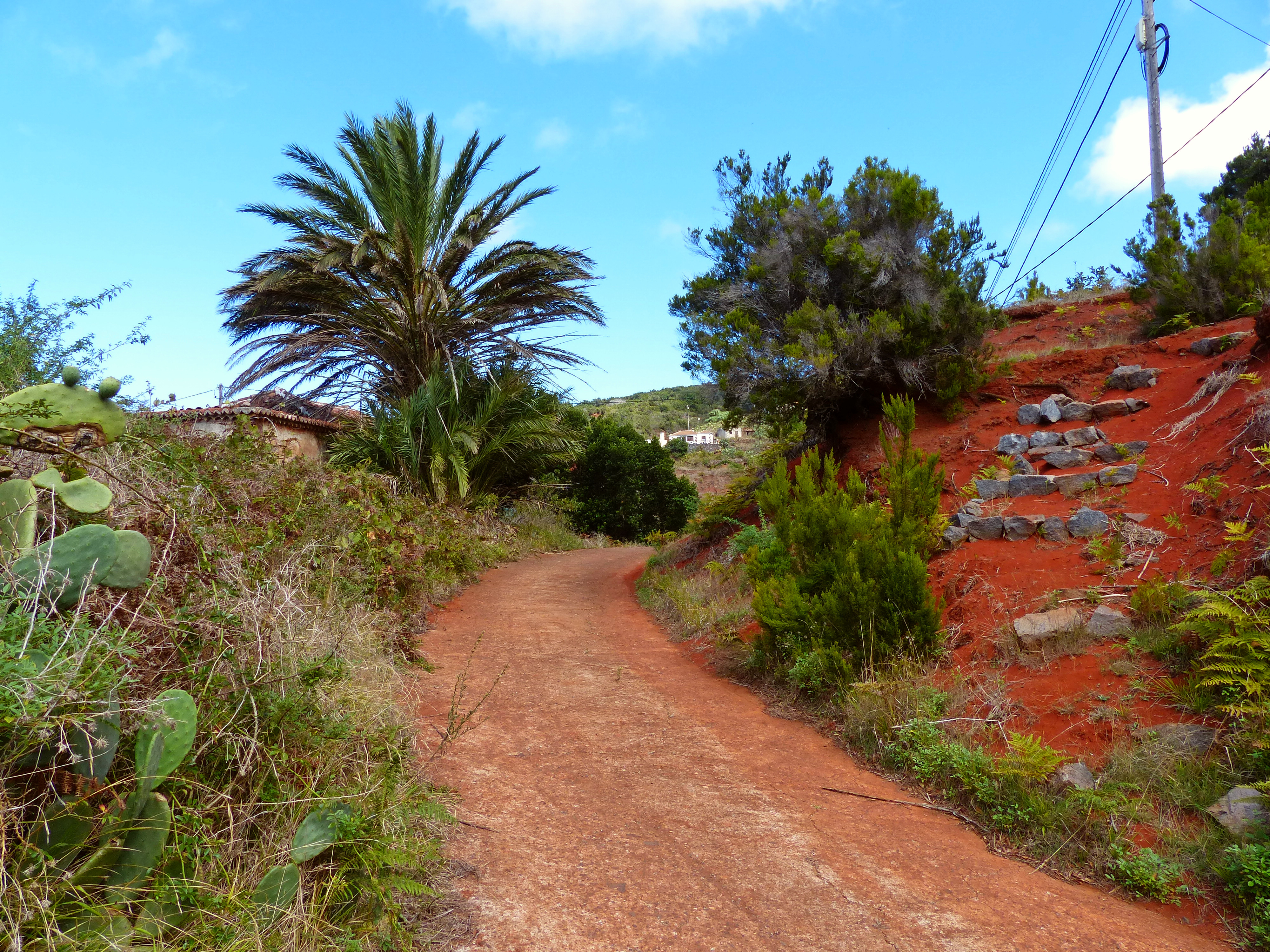 Red Soil